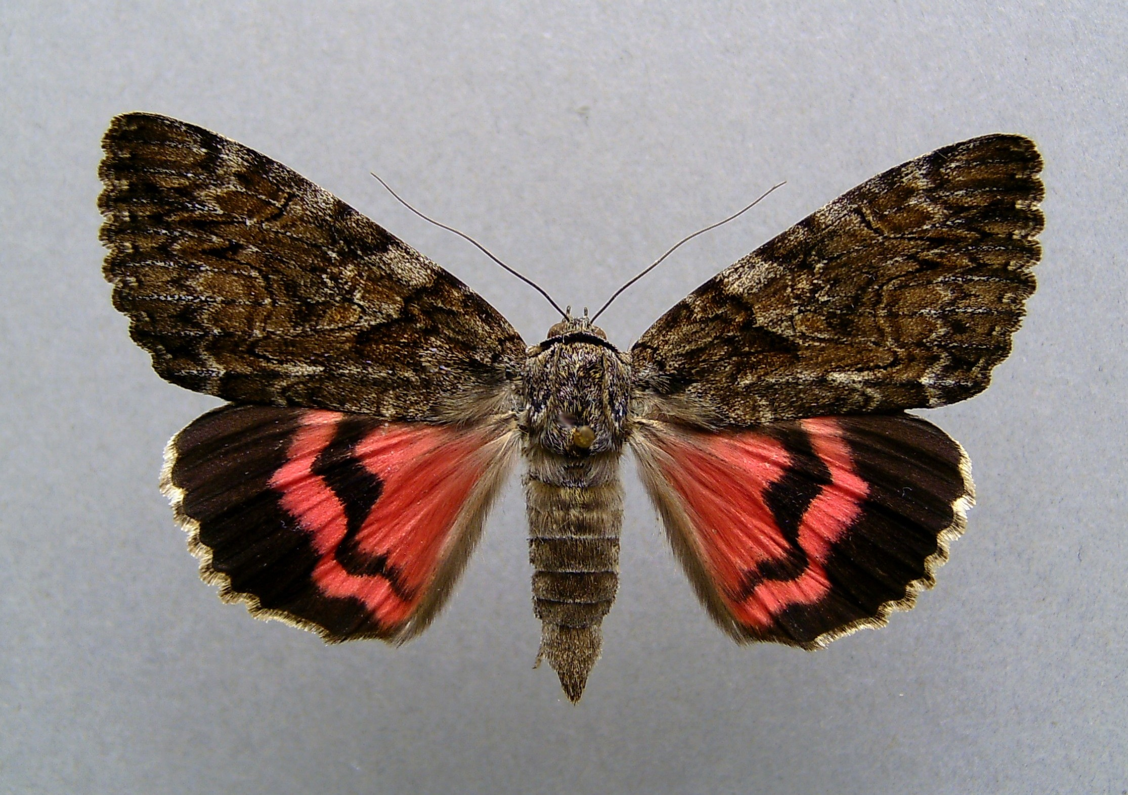 Catocala dilecta, Krk Croatia